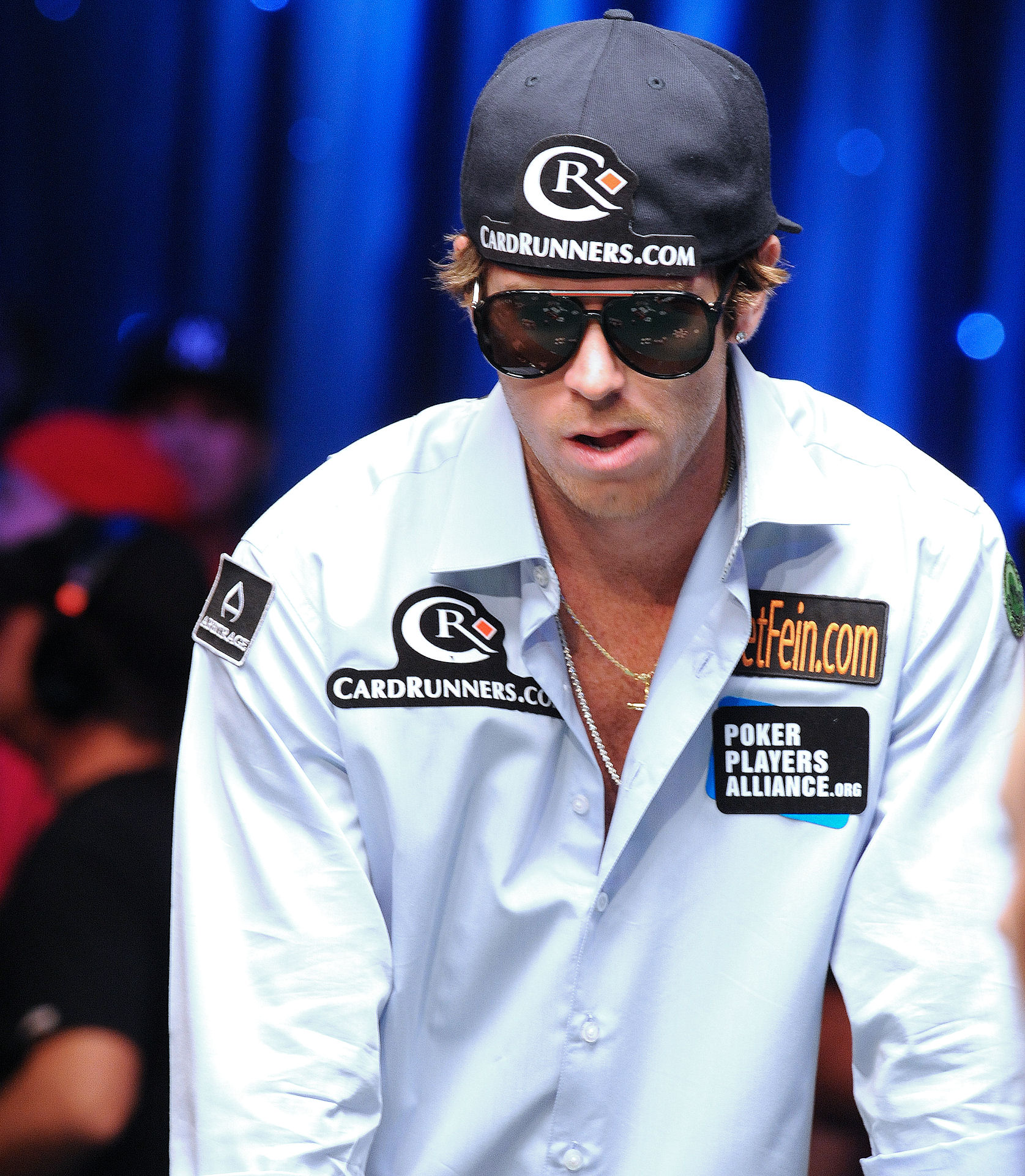 John Racener at the final table of the 2010 World Series of Poker main event